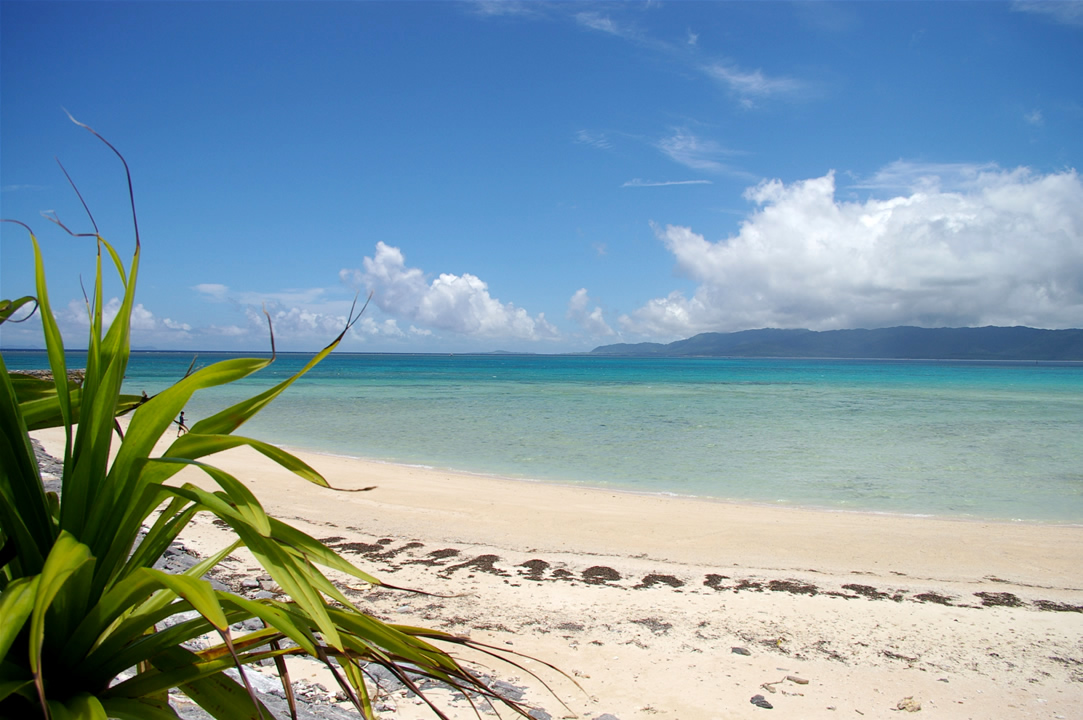 Hatoma island. seen over sea is Iriomote island. 沖縄県八重山諸島にある鳩間島。海をはさんで向こう側に見えるのが西表島である。